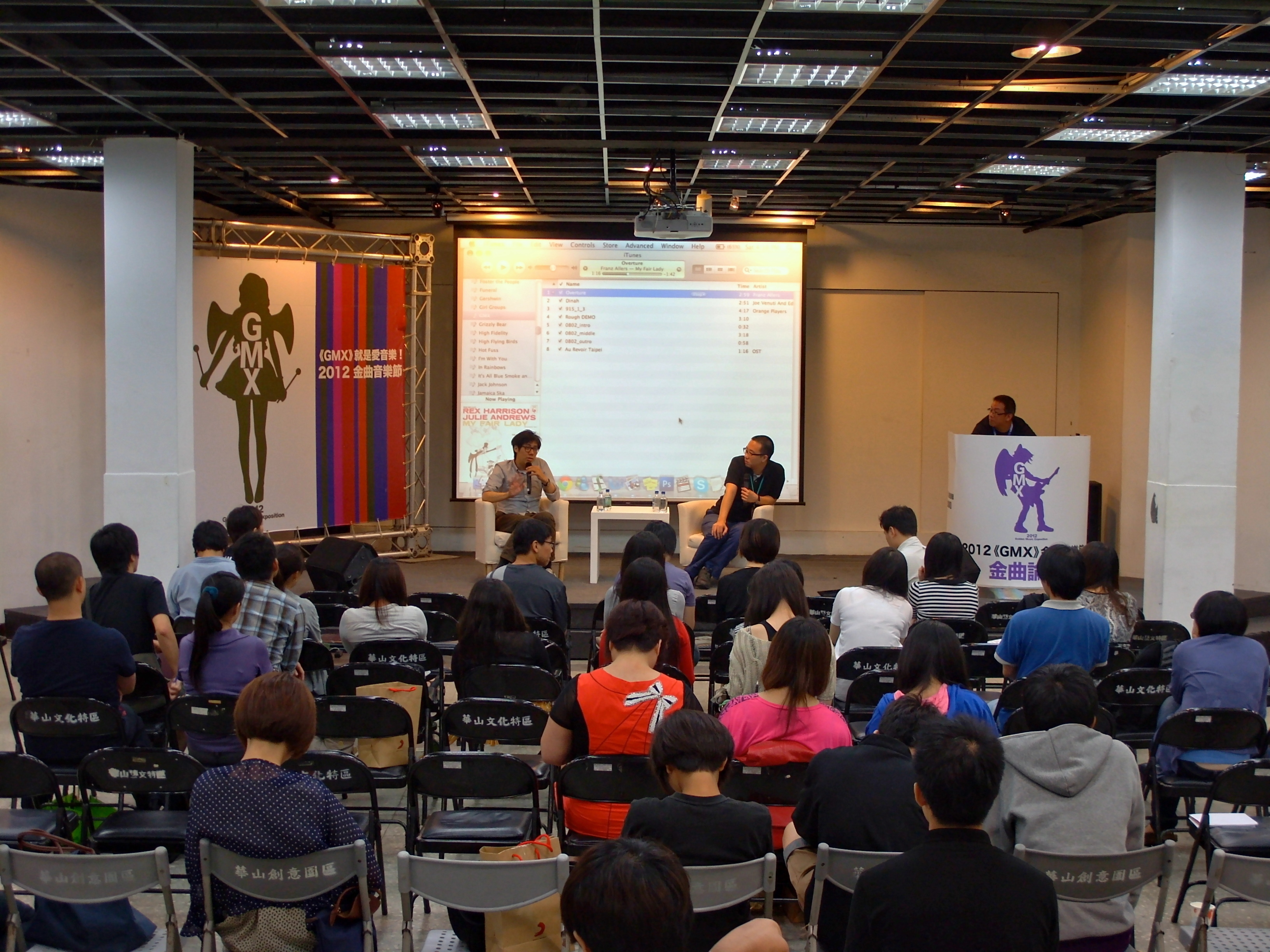 2012 Golden Music Exposition: Golden Music Forum.